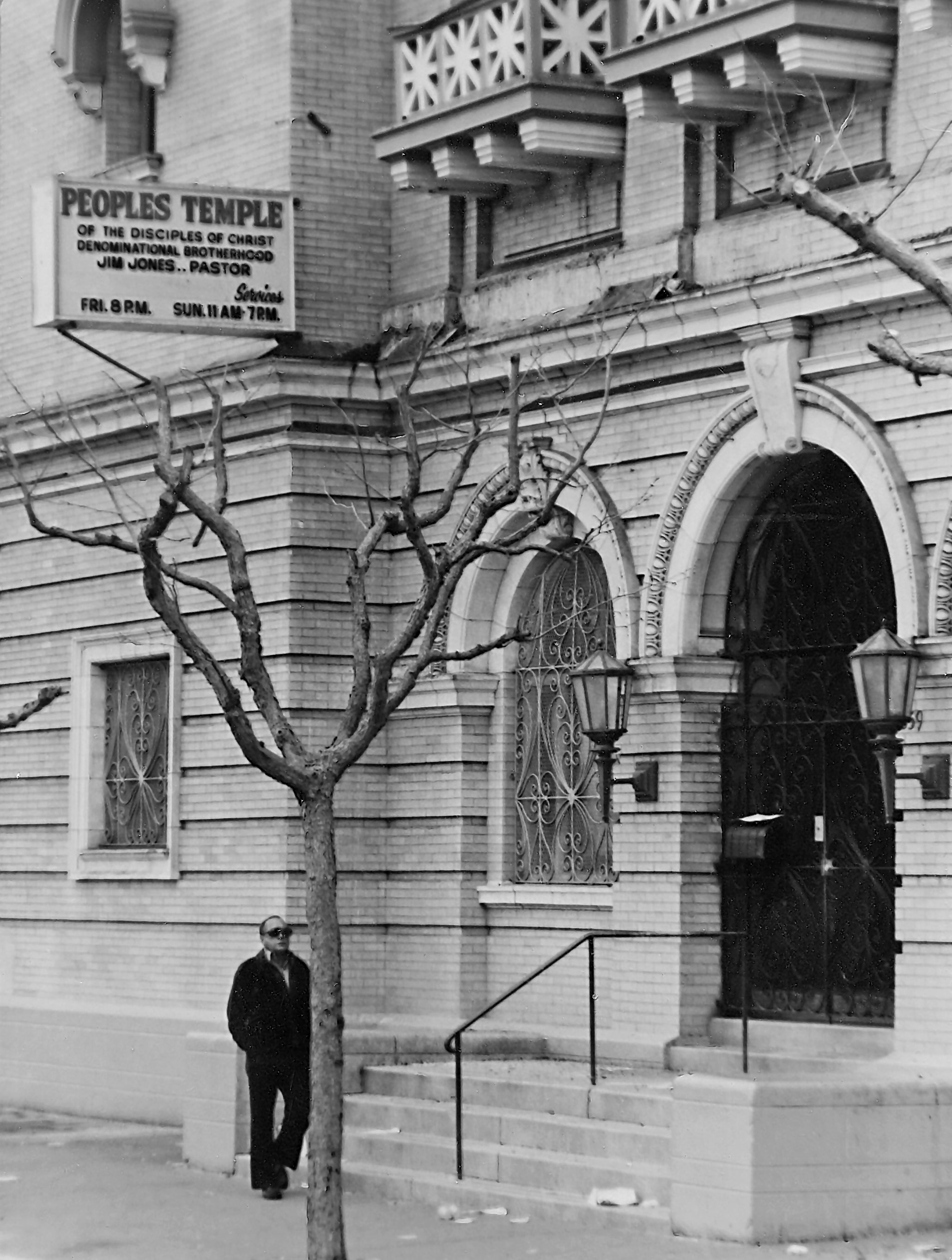 Entrance to Peoples Temple headquarters, 1859 Geary Boulevard, San Francisco.